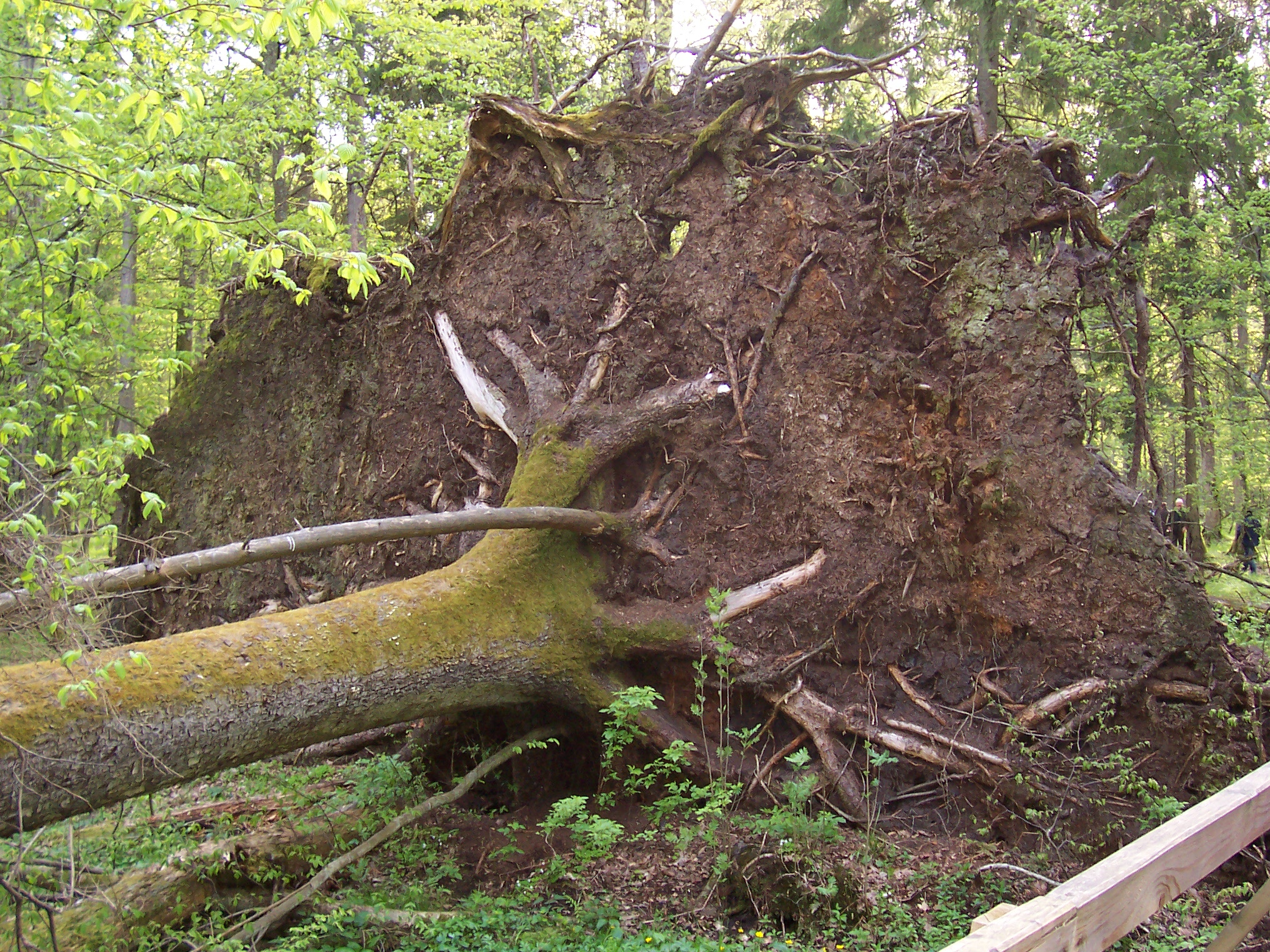 Białowieża Forest National Park